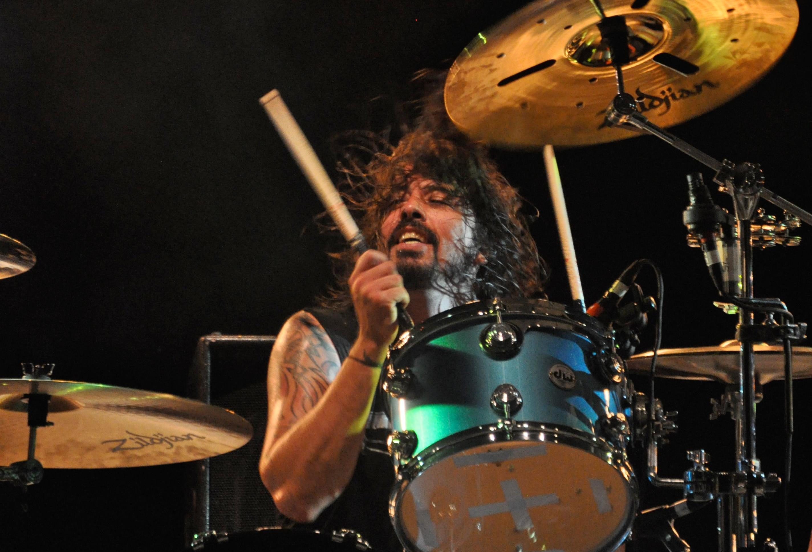 Dave Grohl of Them Crooked Vultures; August 2009 at Austin City Limits.